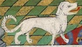 A Talbot hound, positioned behind John Talbot, 1st Earl of Shrewsbury, detail from an illuminated miniature from the Talbot Shrewsbury Book showing John Talbot, 1st Earl of Shrewsbury, KG, with his dog, presenting the book to Margaret of Anjou, Queen of England, 1445. (British Library, Royal 15 E VI f. 2v).